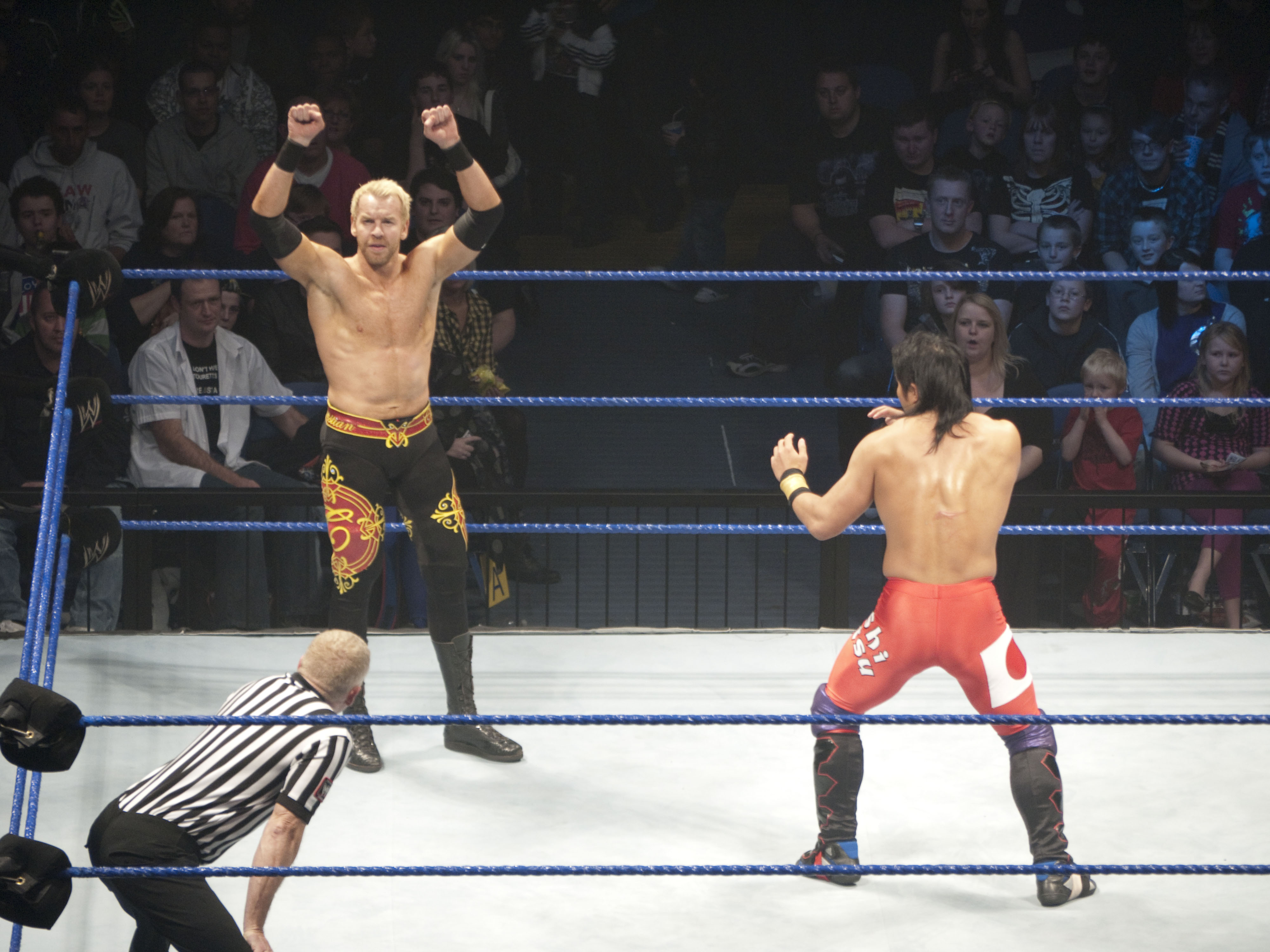 match between christhia & tatsu